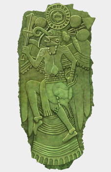 An illustration of the so-called "Copper Solar Ogee Deity," a 21 inches (53 cm) in height S.E.C.C. Mississippian culture repoussé copper plate. It depicts the profile of a dancing winged figure, wielding a ceremonial mace in its right hand and a severed head in the left. The plate was discovered at the Lake Jackson Mounds site in northern Florida. Design wise it is in the Late Braden Style associated with Cahokia Mounds in Illinois. Similar to the Rogan Plates found at Etowah Mounds in Georgia, several motifs differentiate this representation of the "birdman". On his head he is bearing an ogee motif and instead of the raptor beak common to other birdman representations, the figure on this plate has a curled proboscis which is similar to those found on several shell gorgets from Missouri and long-nosed god maskettes.